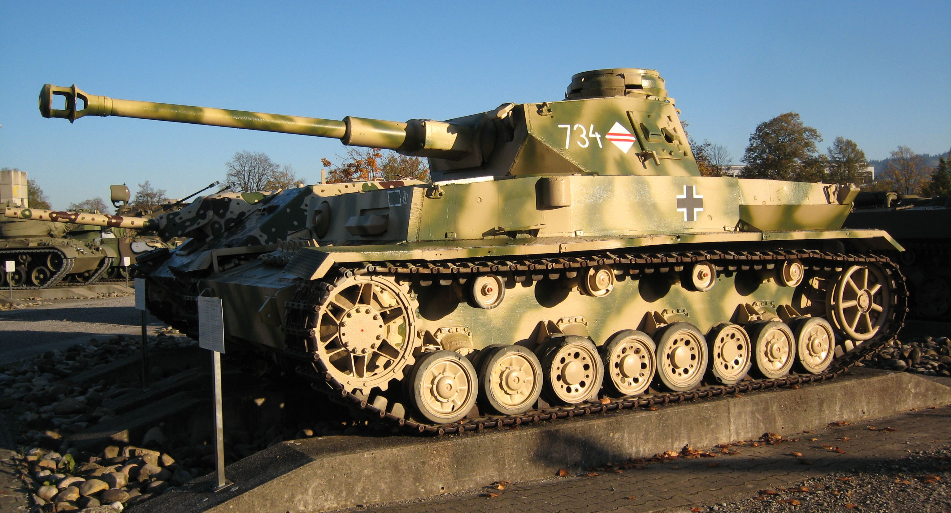 Panzer IV Ausf. H. Tank Museum Thun.